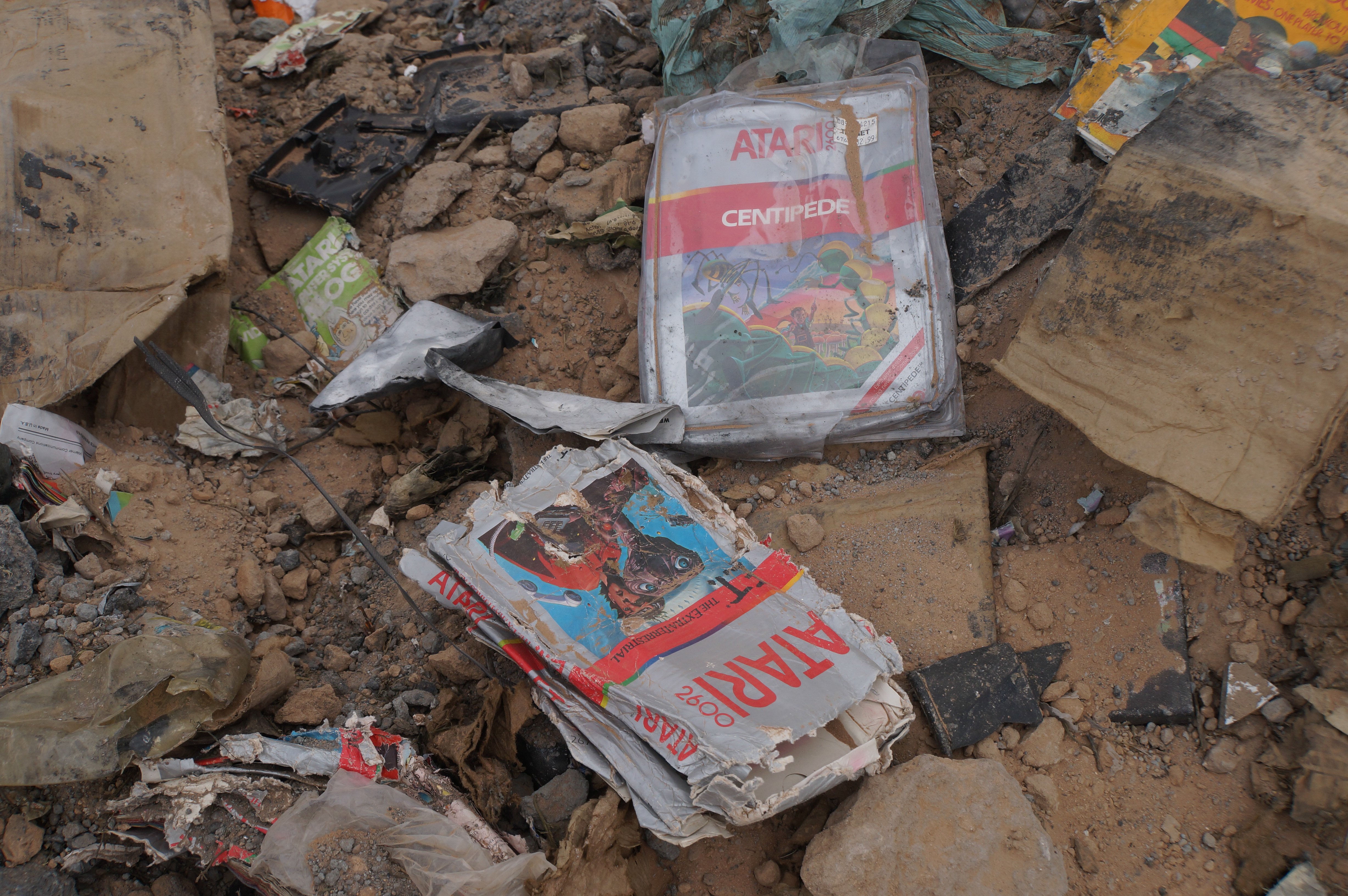 What Atari buried, beyond E.T.